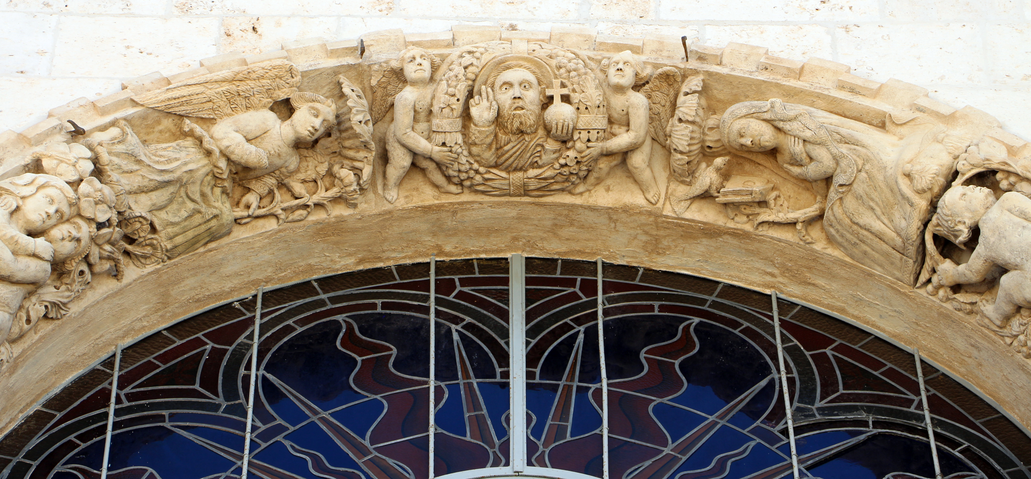 Chiesa Madre (Noci)